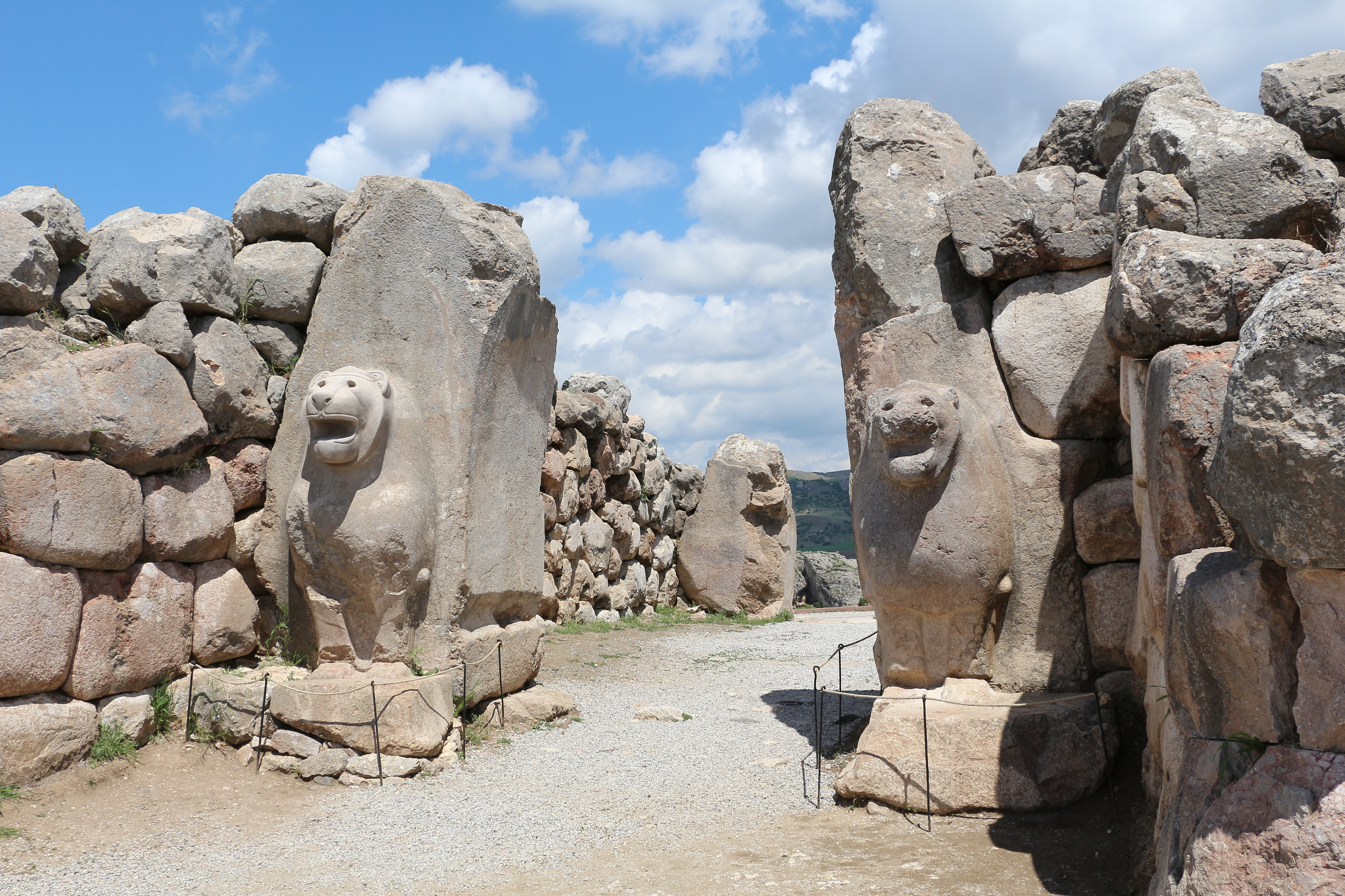 Lion Gate, Hattusa, Turkey